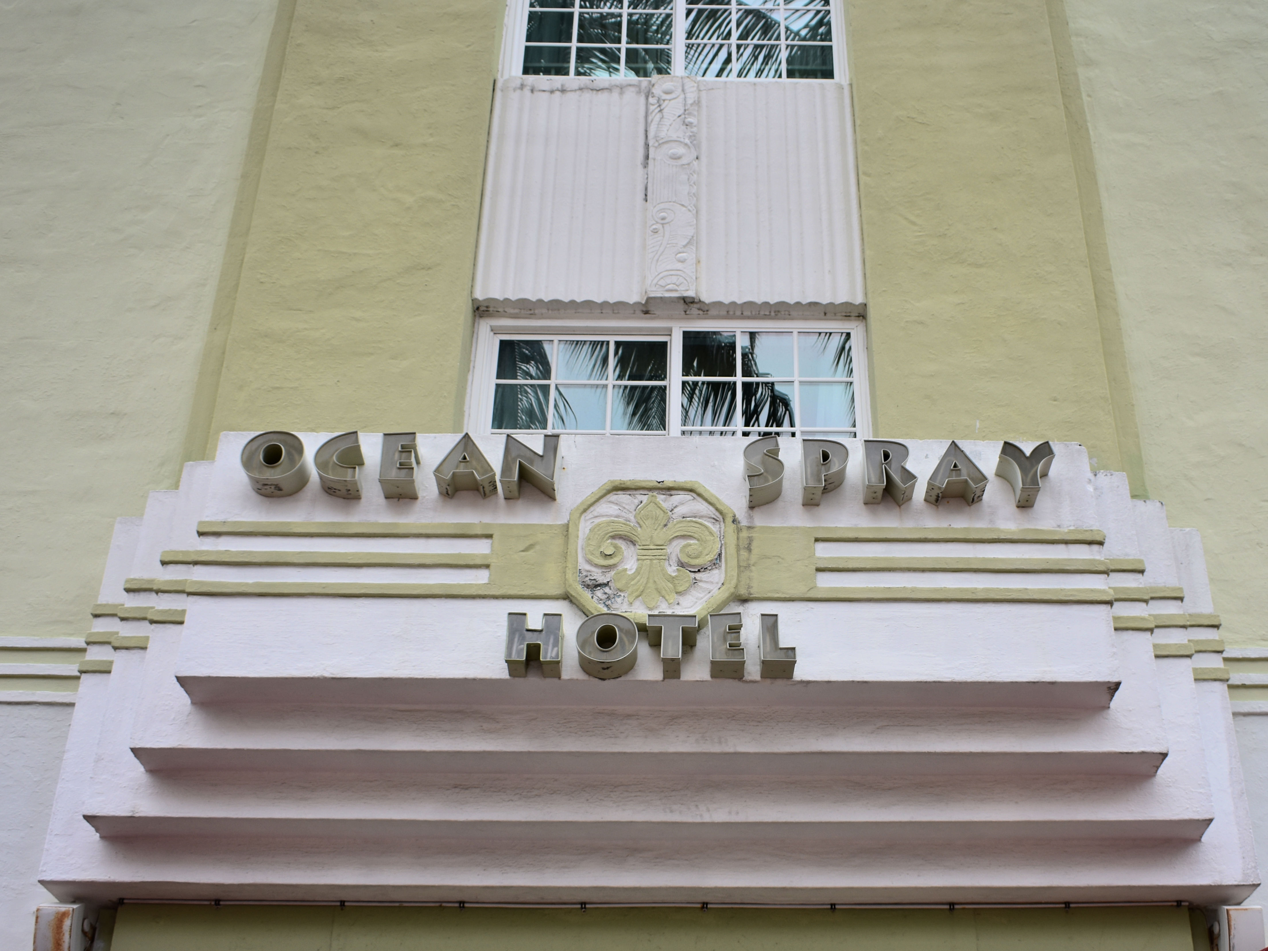 The Ocean Spray Hotel (1936) in Miami Beach, designed by Martin L. Hampton, is part of the Collins Waterfront Architectural District.